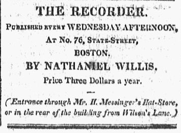 Newspaper item related to Nathaniel Willis